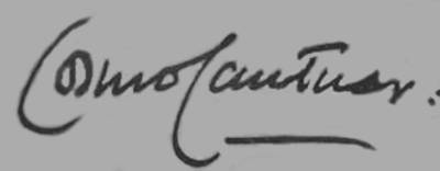 Signature of Cosmo Gordon Lang as Archbishop of Canterbury